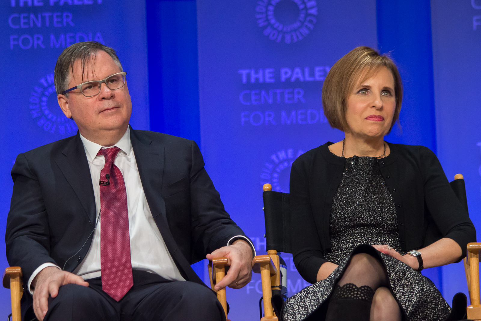 Writers Robert King and Michelle King at the PaleyFest 2015 Panel for The Good Wife